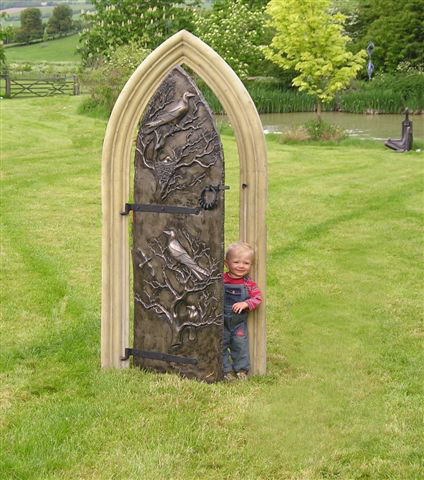 Secret Garden Door Cold Cast Bronze and reconstituted stone by Mark Reed